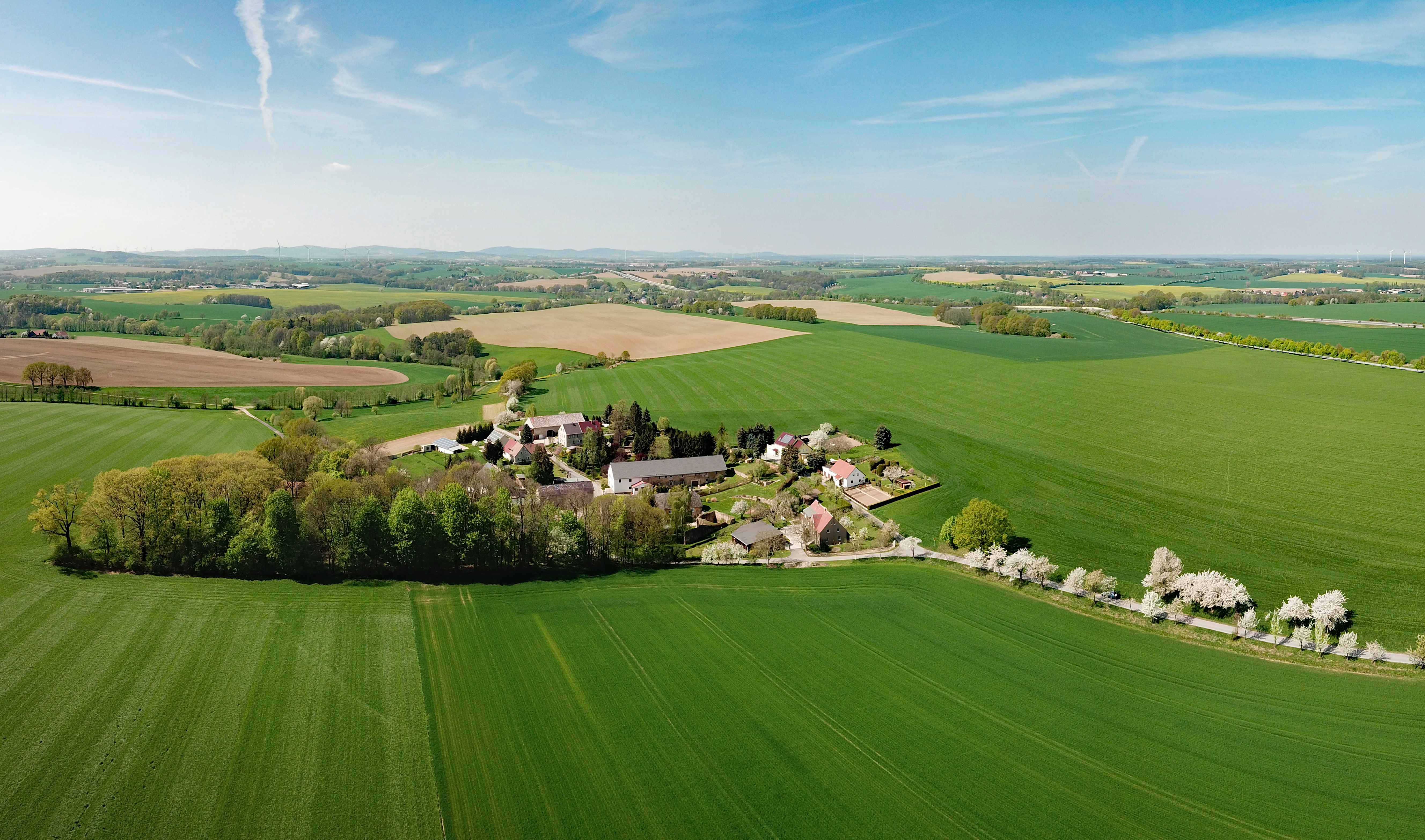 Döbschke (Göda, Saxony, Germany) Hornjoserbsce: Powětrowy wobraz Debiškowa.